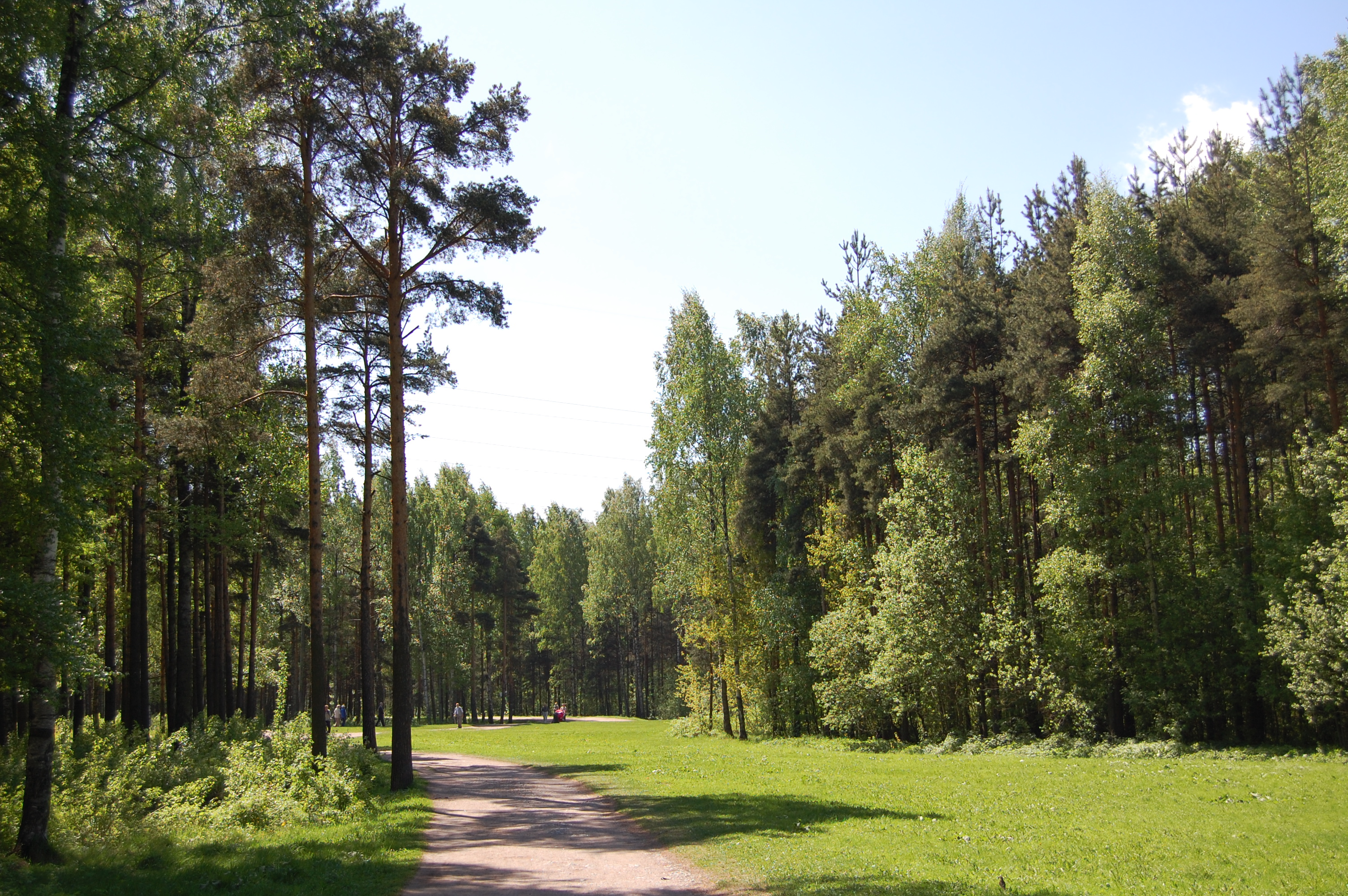 An Alley